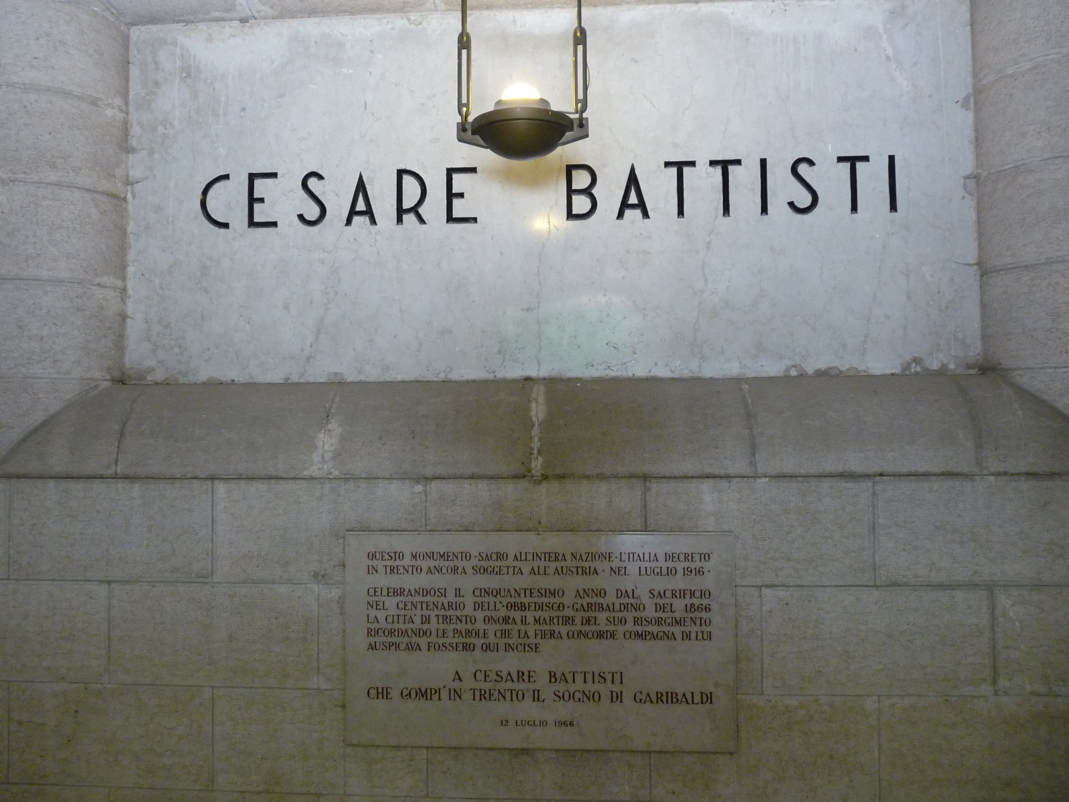 Trento (Italy): memorial tablet inside the mausoleum of Cesare Battisti on the top of Doss Trento